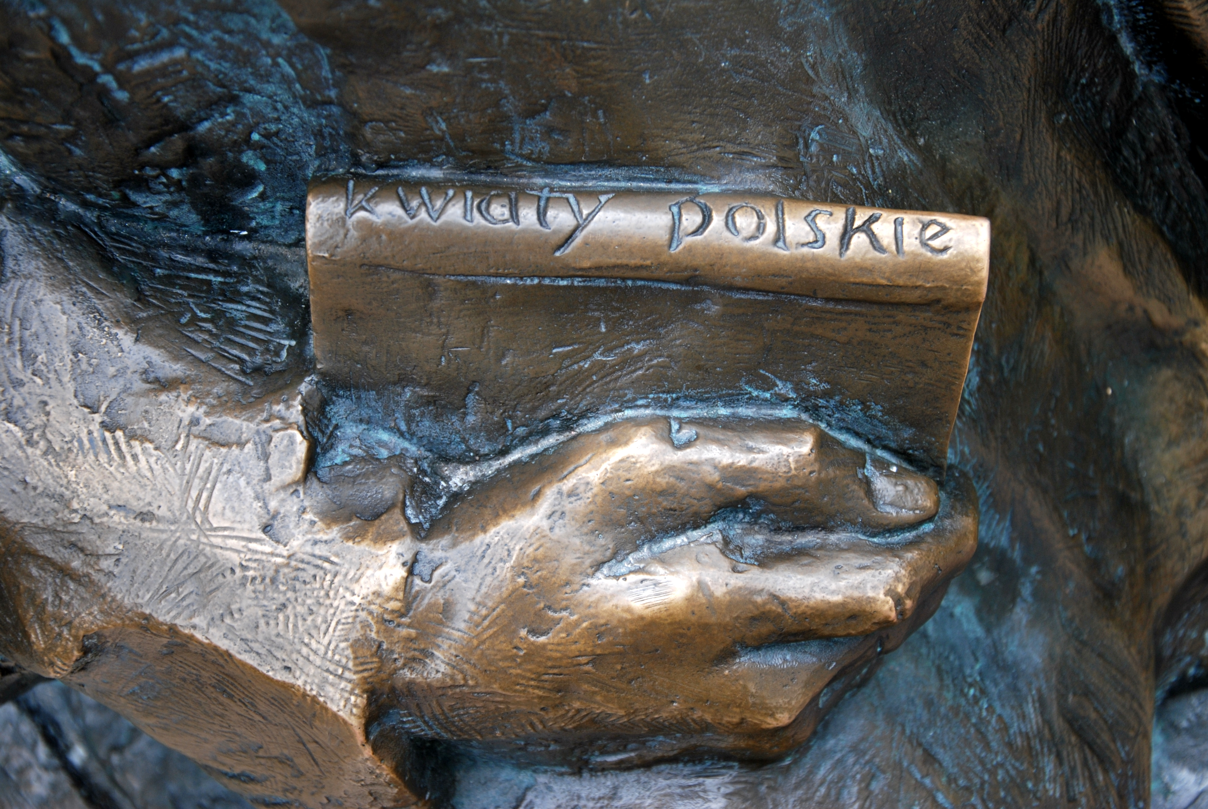 Ławeczka Tuwima, detail